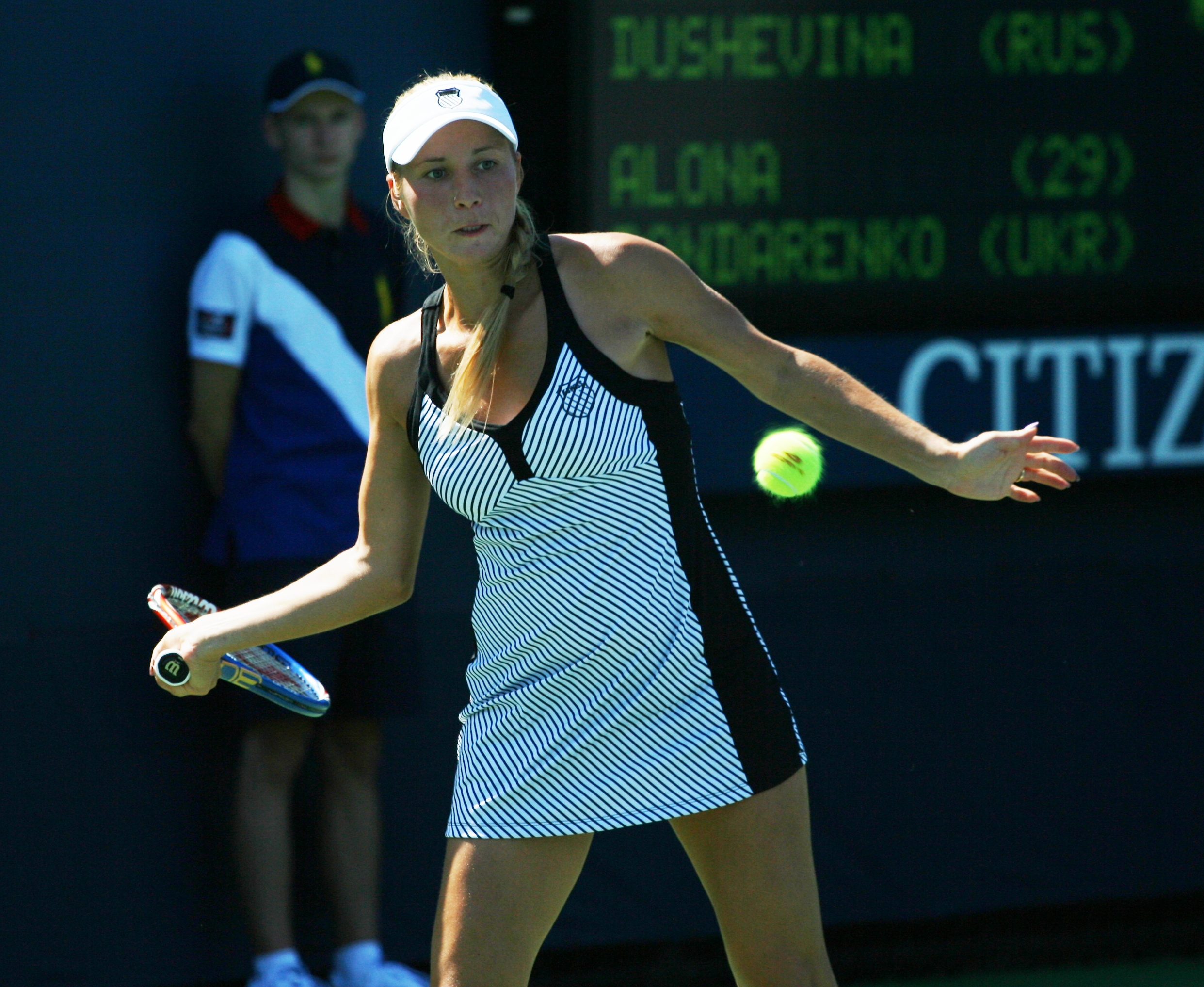 U.S. Open Monday, Aug. 30, 2010